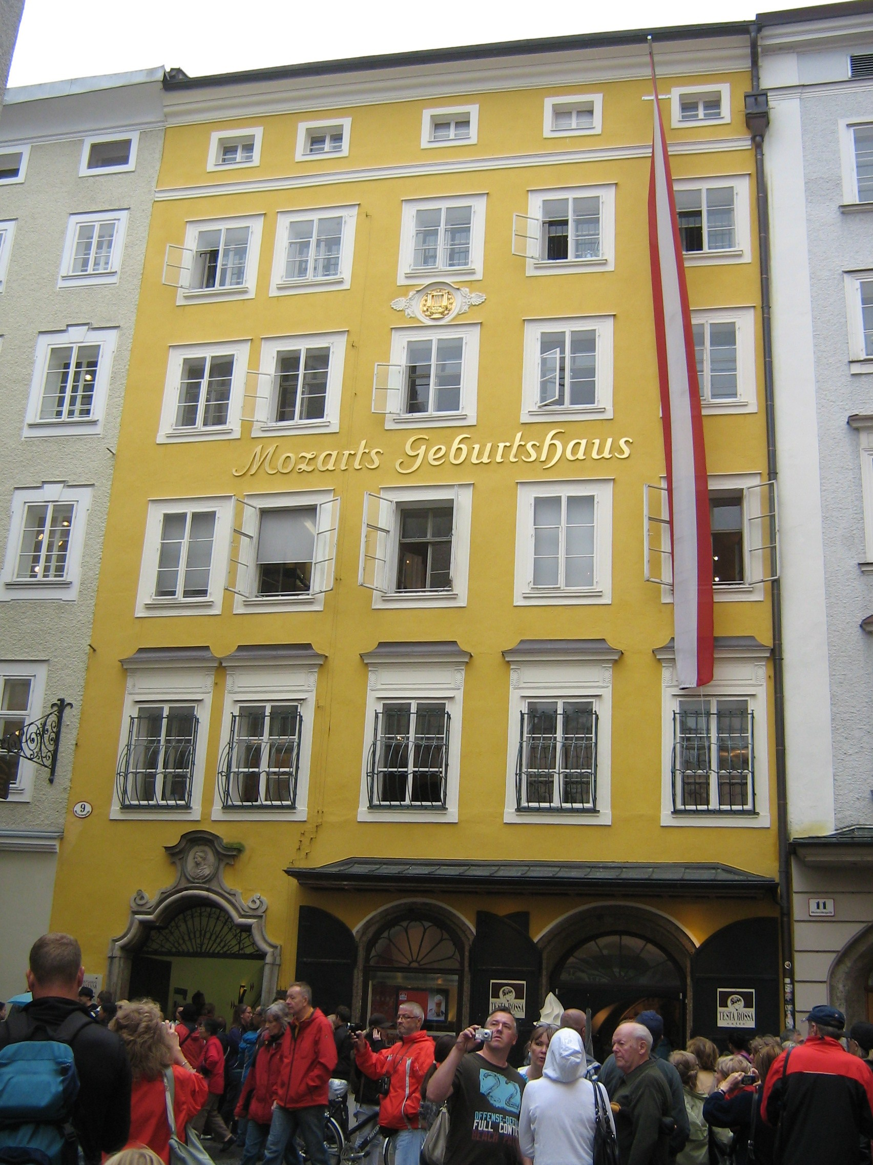 Austria, Salzburg, Getreidegasse